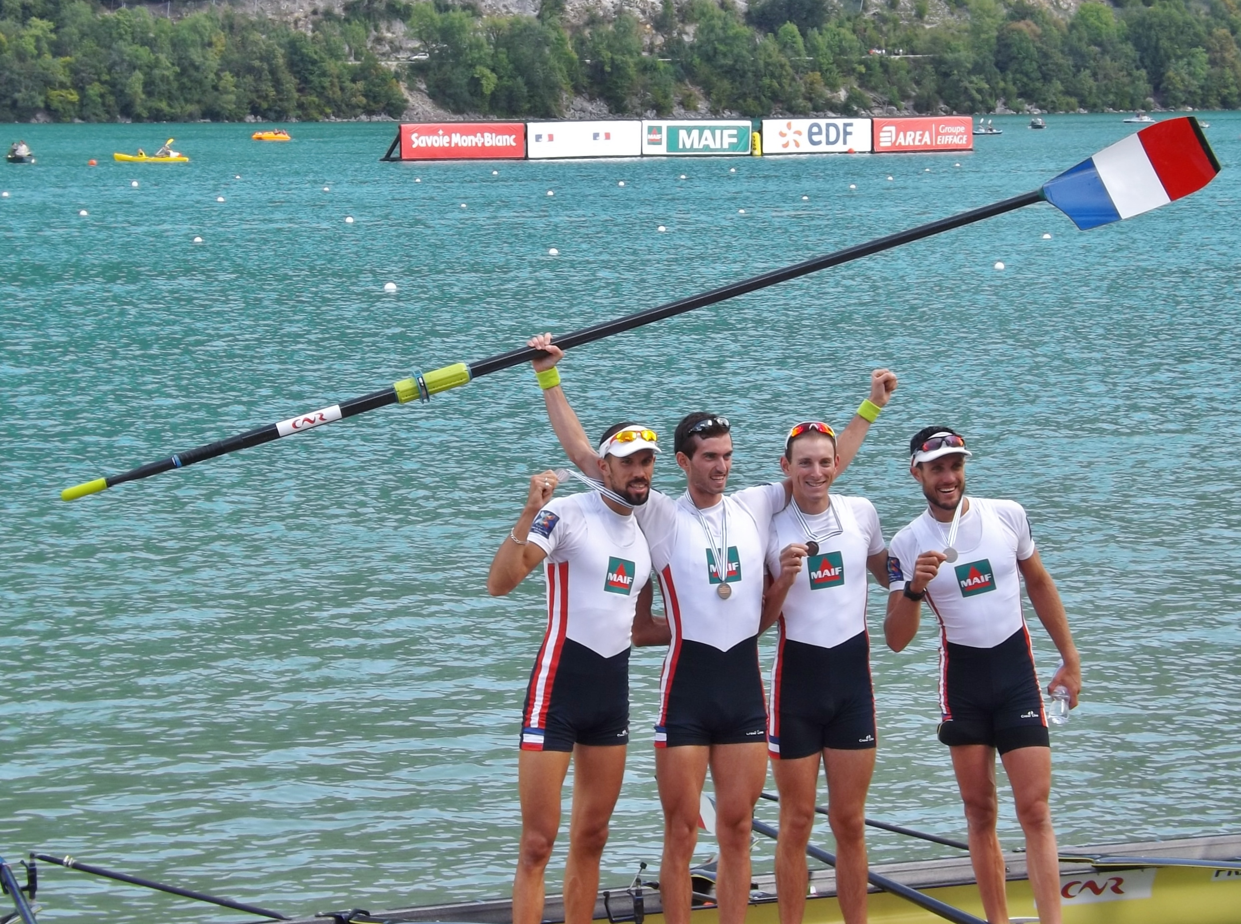 Sight of a French men team, waving to the public congratulating them for reaching bronze medals, during the 2015 World Rowing Championships on the lac d'Aiguebelette lake, in Savoie, France.